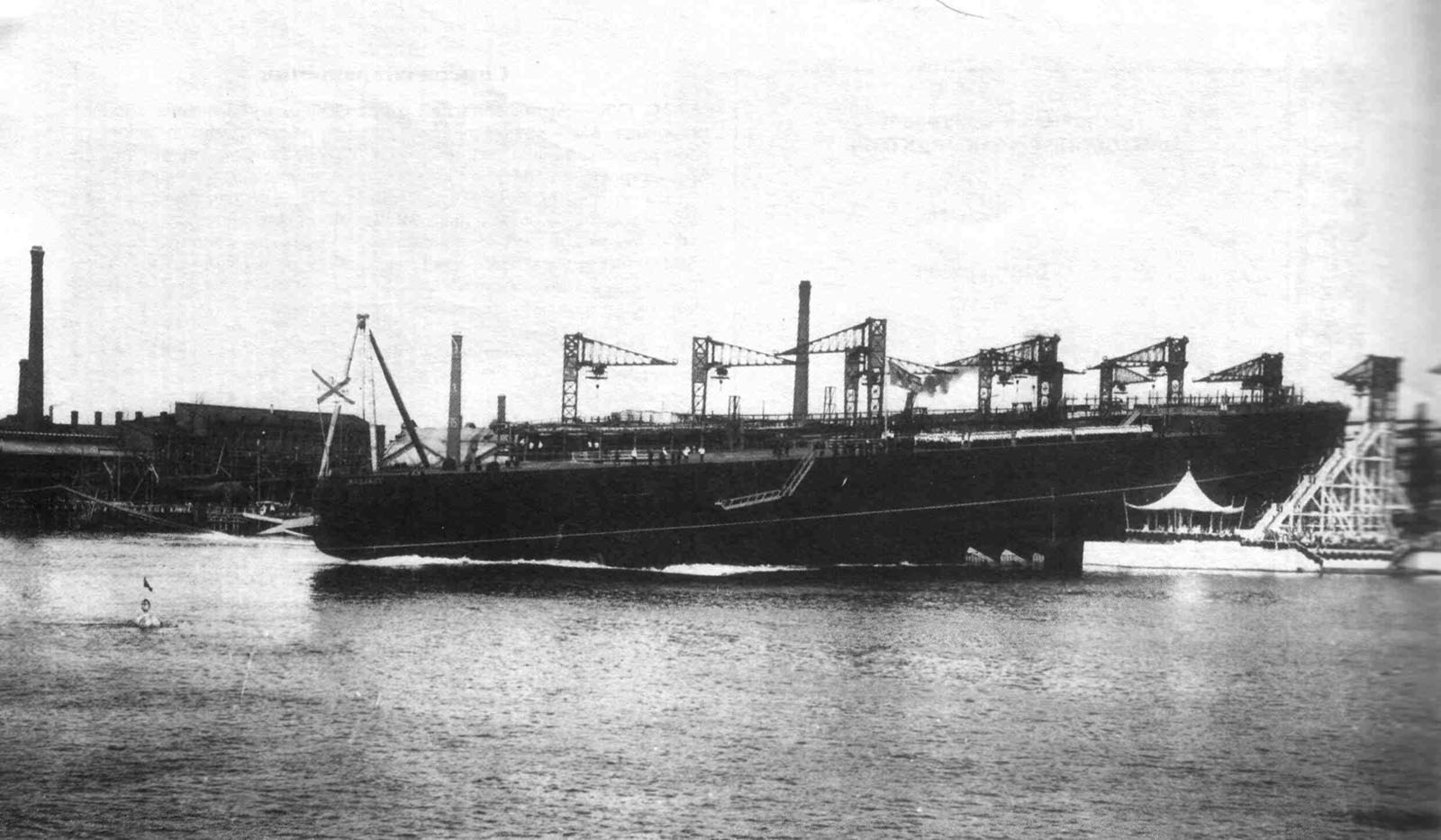 Battlecruiser Izmail at Baltic factory in Petrograd.